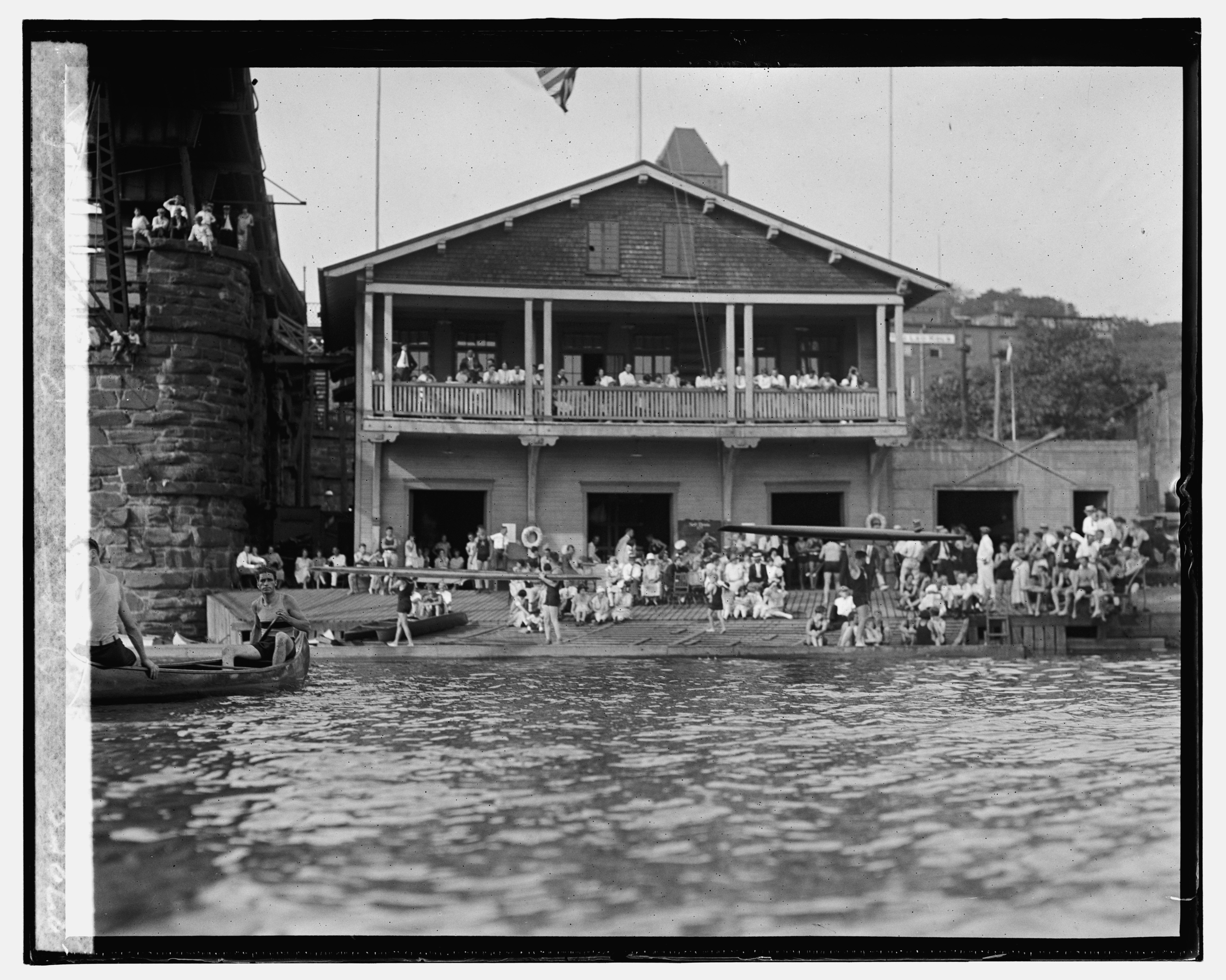 Title: Potomac Boat Club Abstract/medium: 1 negative : glass ; 4 x 5 in. or smaller